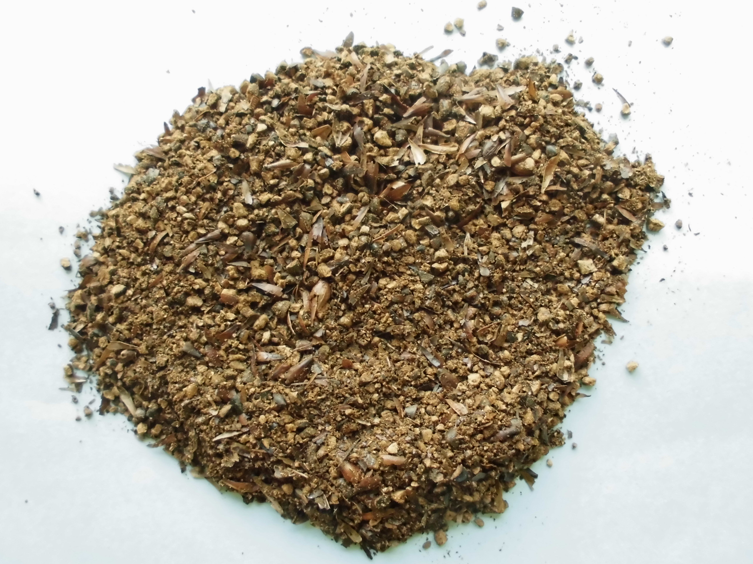 Japanese Barley tea (mugicha)